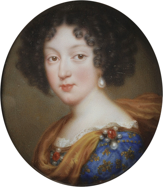 Portrait of Marie Louise d’Orléans (1662-1689), future Queen of Spain